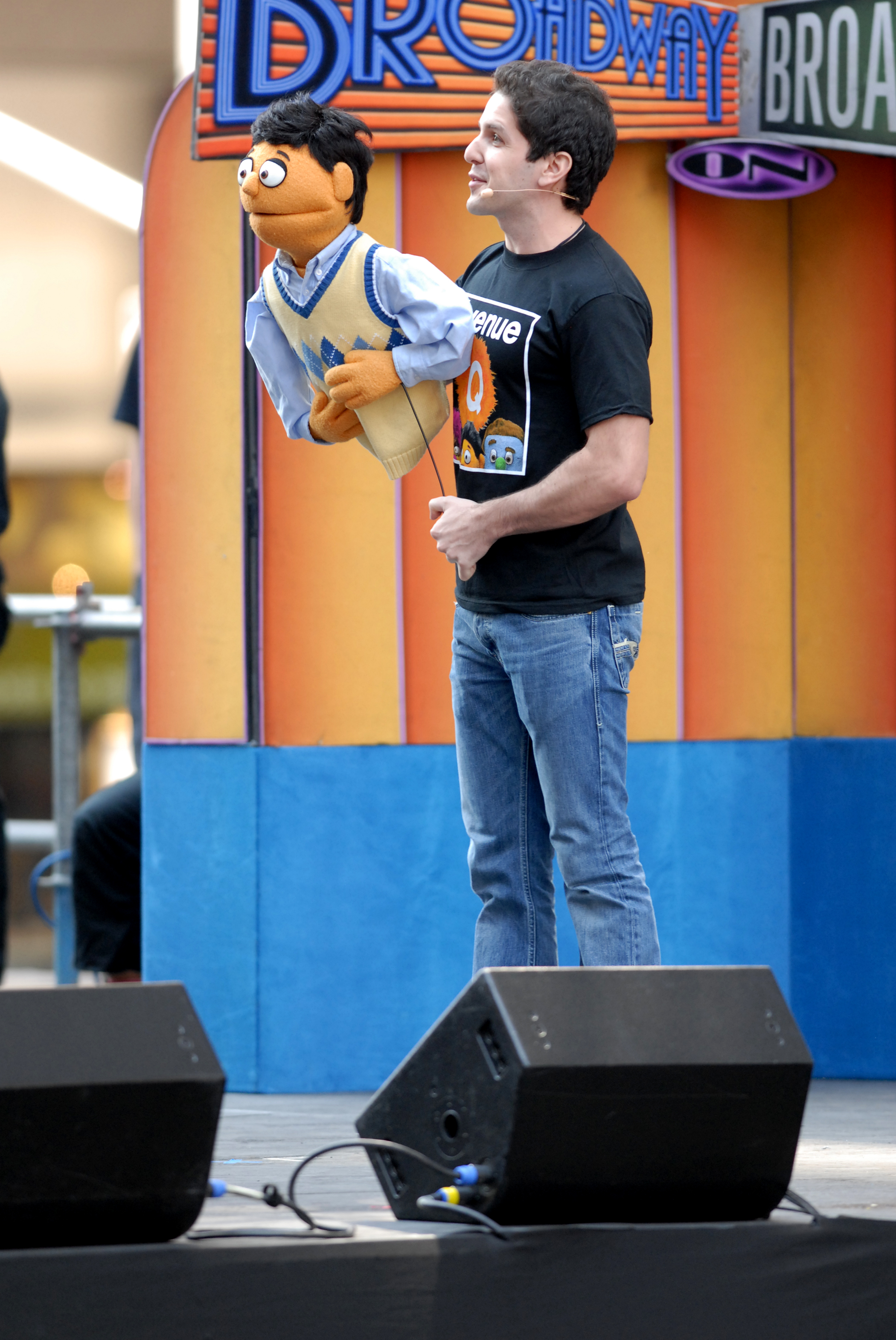 The cast of Avenue Q performs "It Sucks to Be Me" at Broadway on Broadway, September 10th 2006.